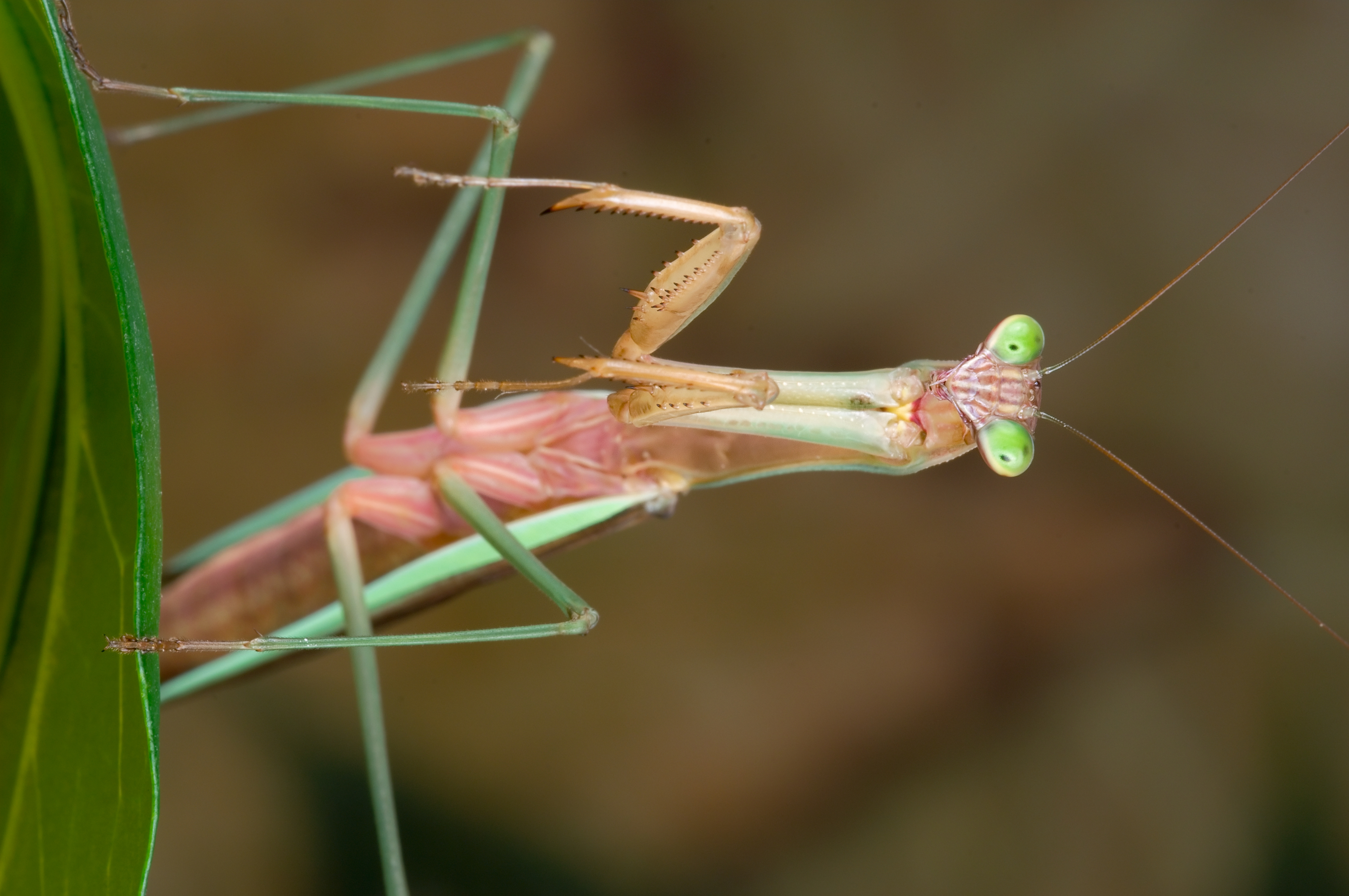 "Tenodera sinensis" Chinese mantis